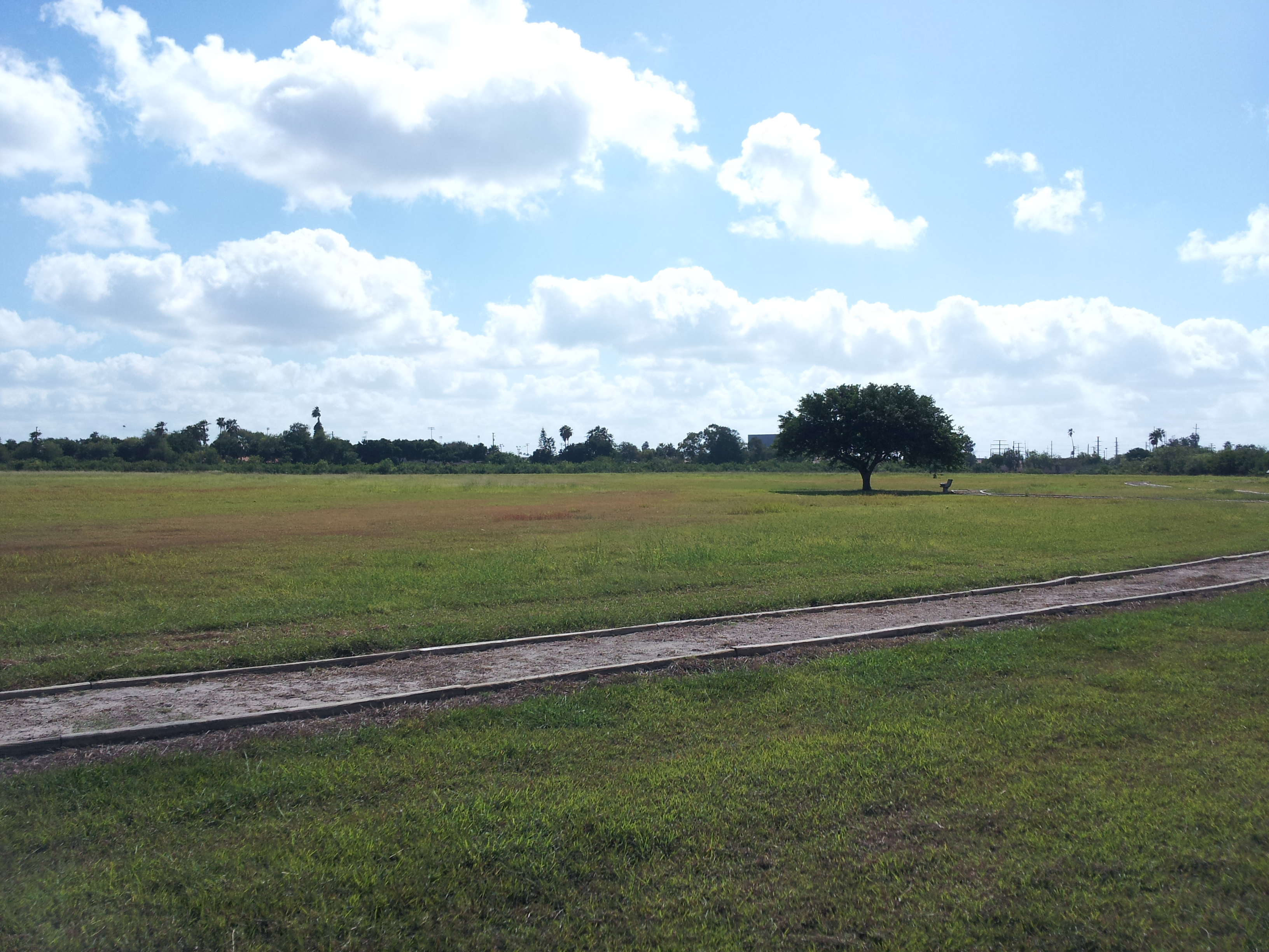 Resaca De La Palma Battlefield This photo was uploaded with Wiki Loves Monuments mobile 1.2.1 (Android).